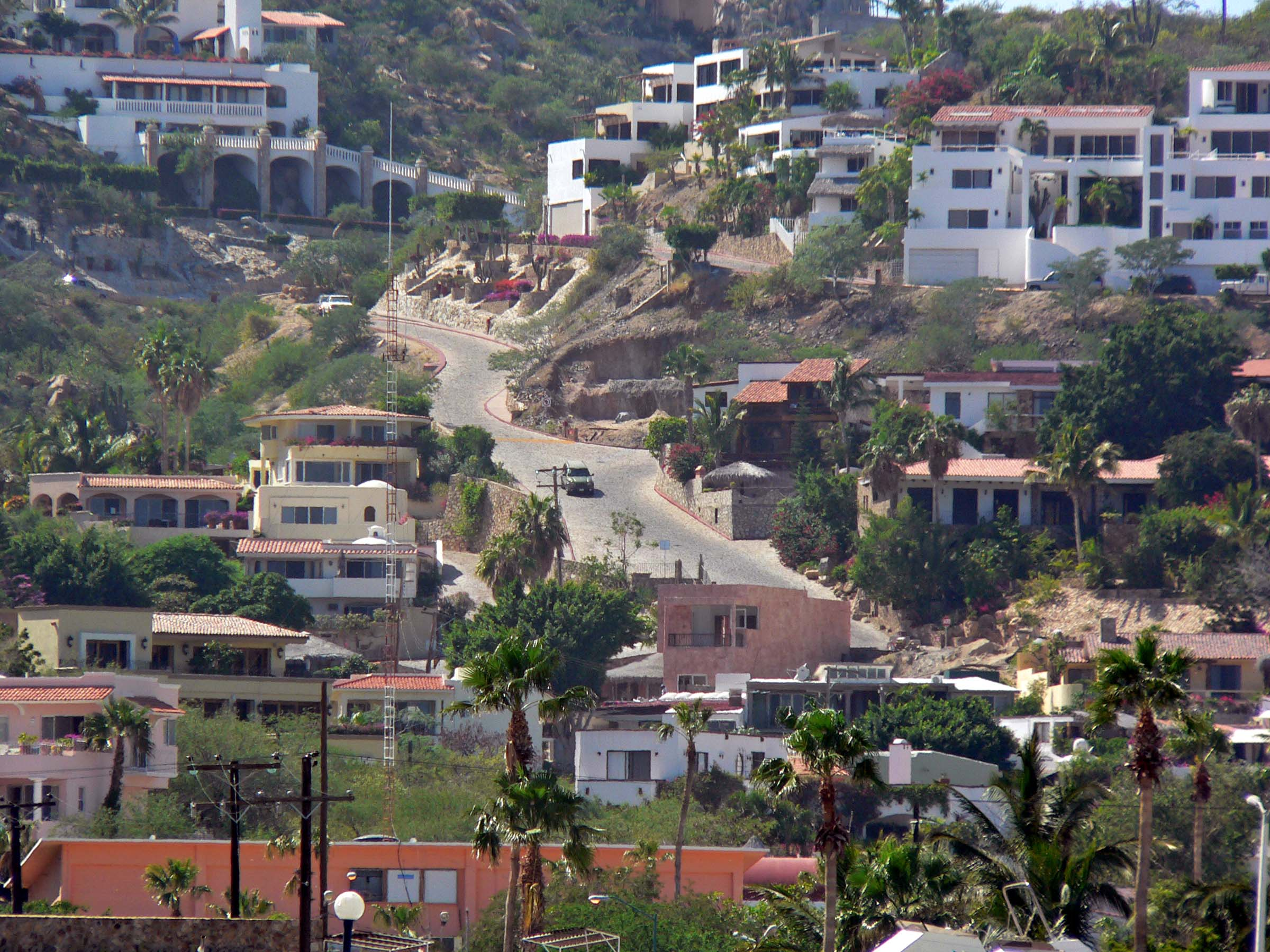 Photo of street in Cabo San Lucas, Mexico